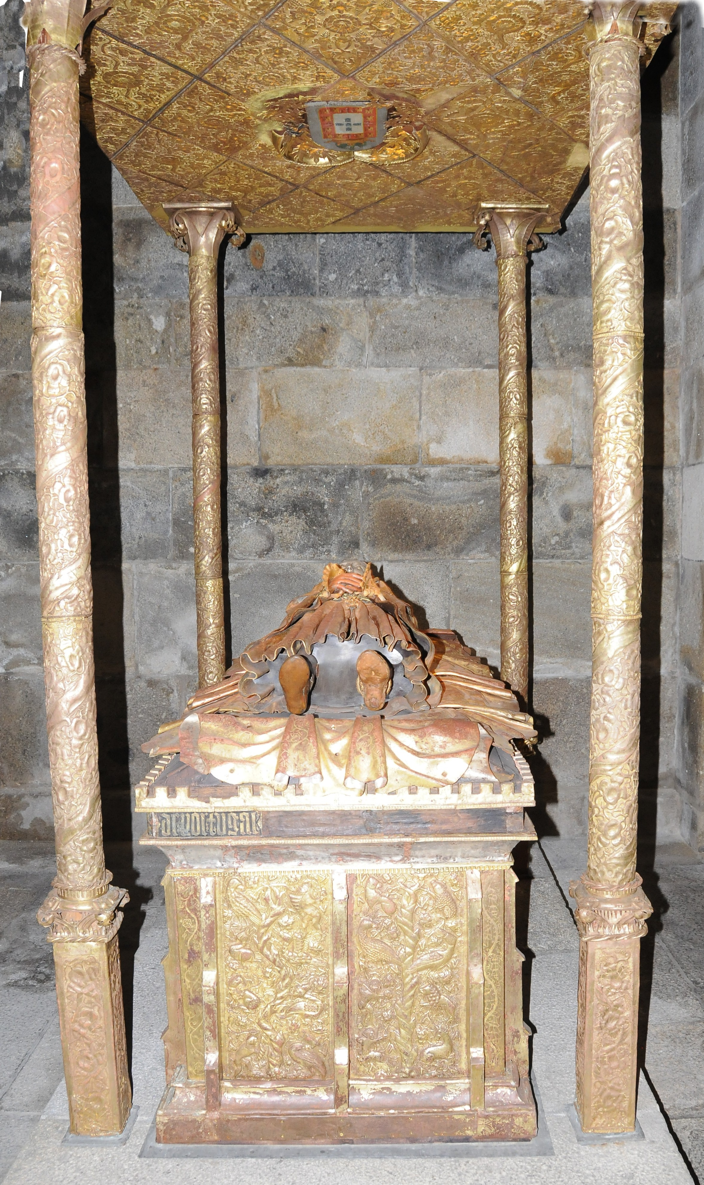 Tomb of Afonso de Portugal (born 1390 - dead 1400) in South Tower of Braga Cathedral, Portugal.